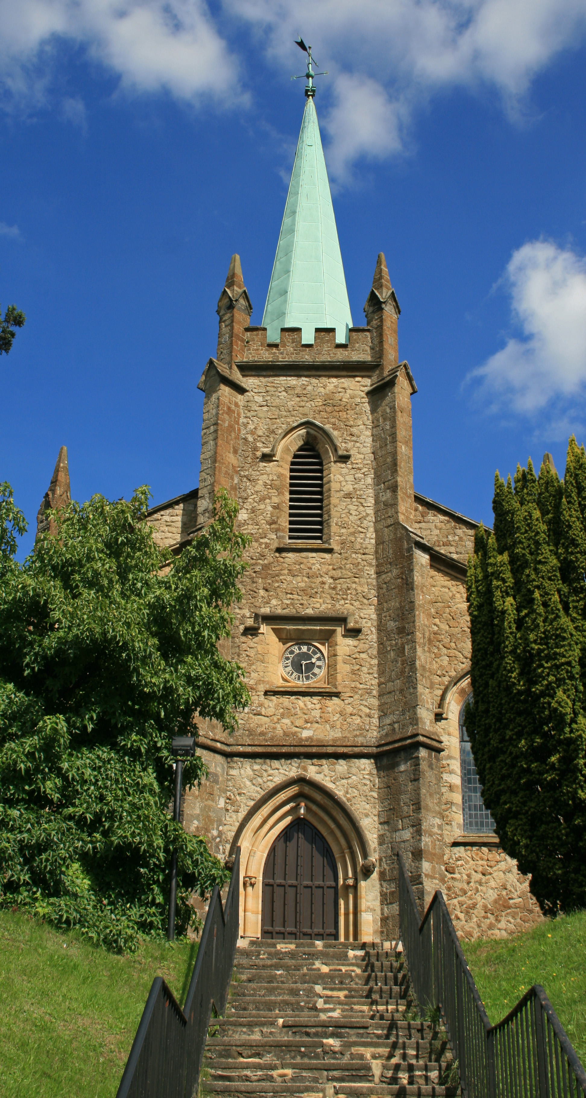 St Mary's parish church, Riverhead, Kent, seen from the west